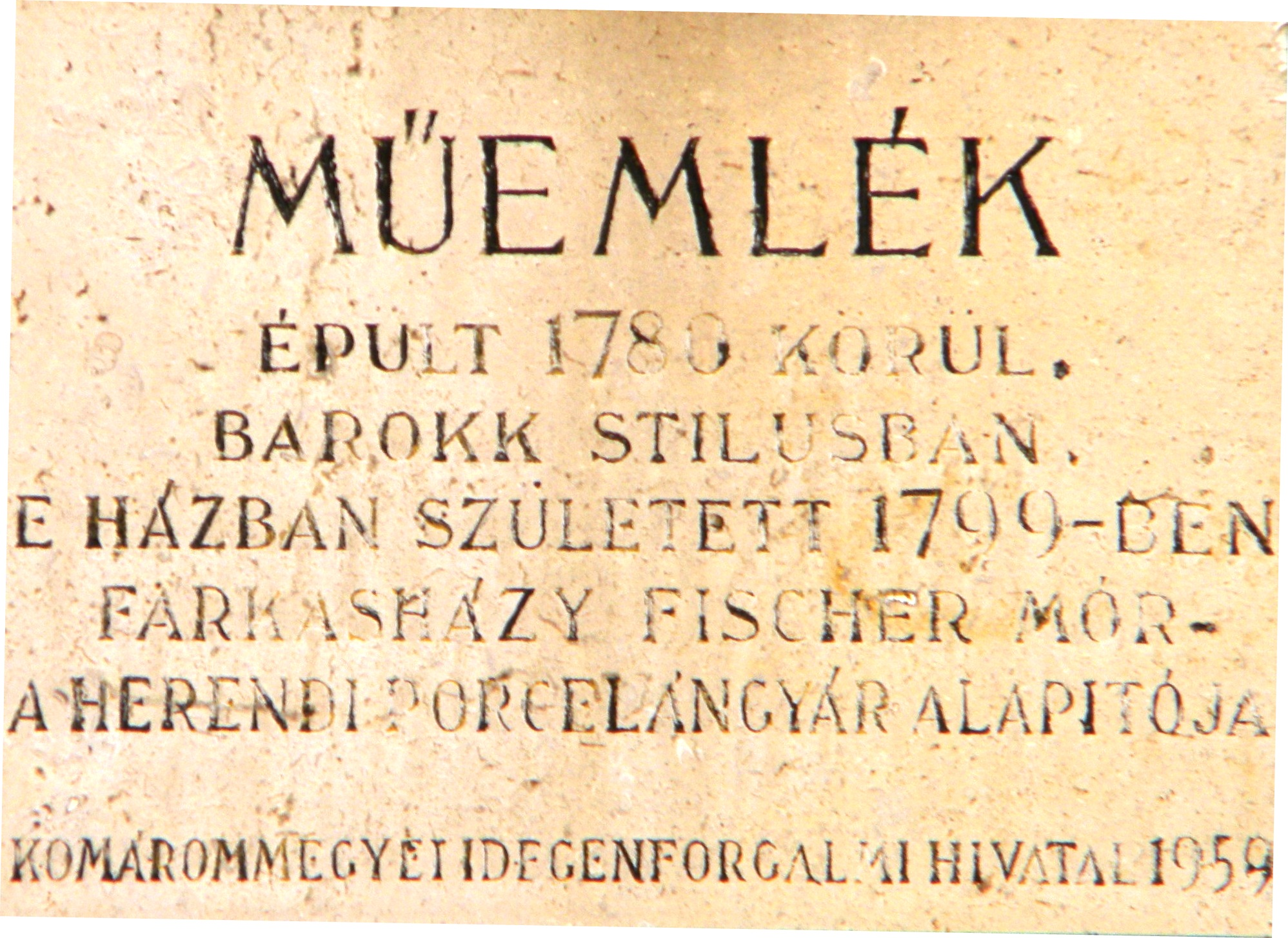 Location: Hungary, Tata